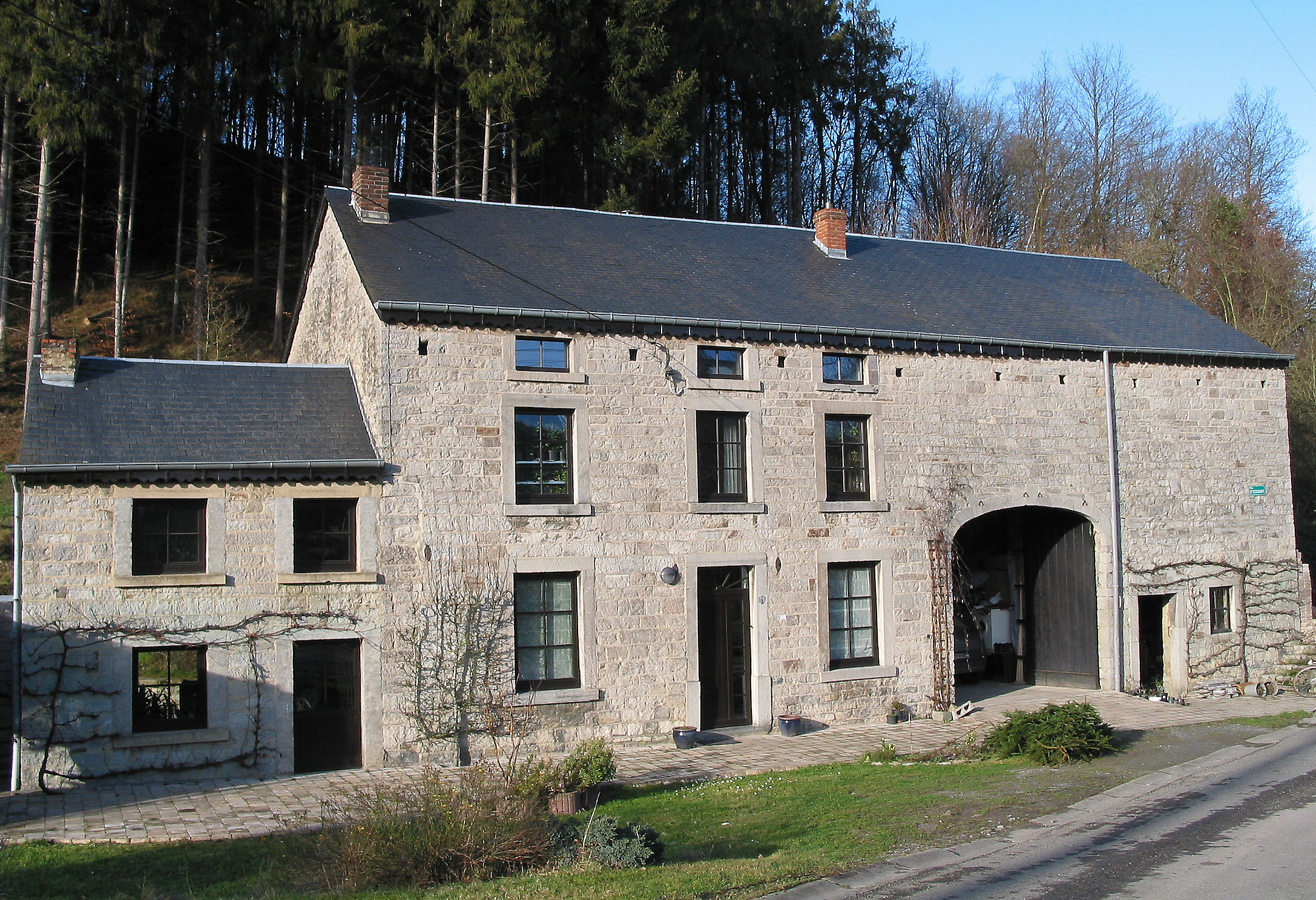 Forrières (Belgium), rue d'Eccourt, 23 - old farm (XIXth century).